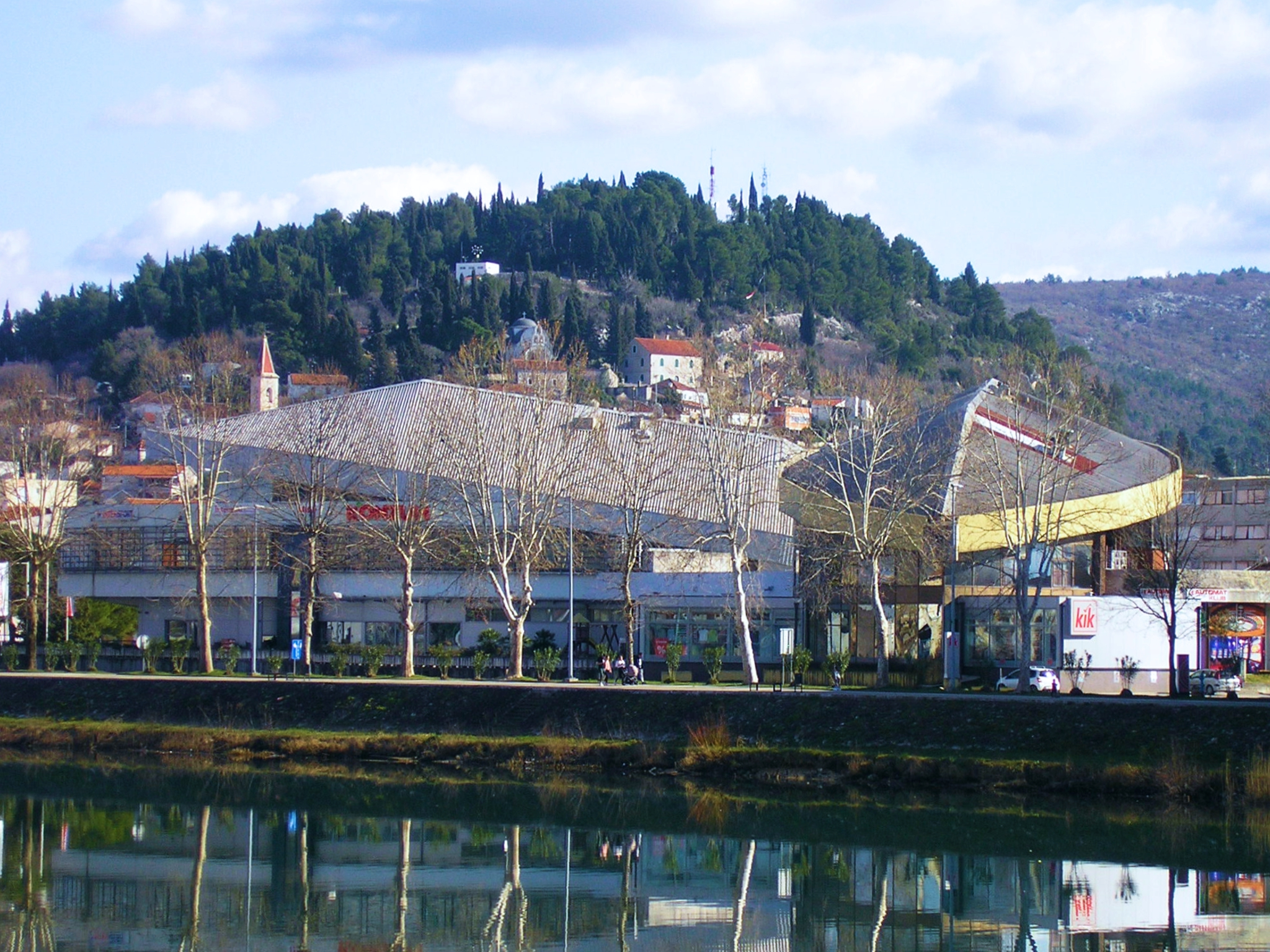 Shopping mall in Metković, Croatia